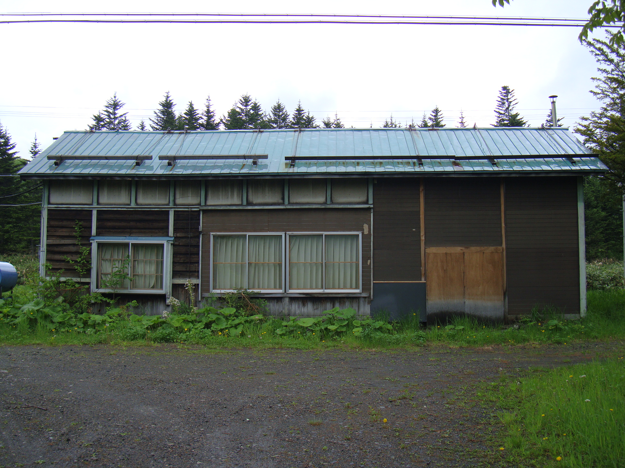 Oku-Shirataki Signal Base